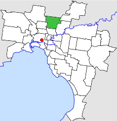 Location of the City of Preston within Melbourne.